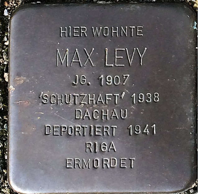 Stolperstein - Stumbling Stone in Nettetal, NRW, Germany Max Levy